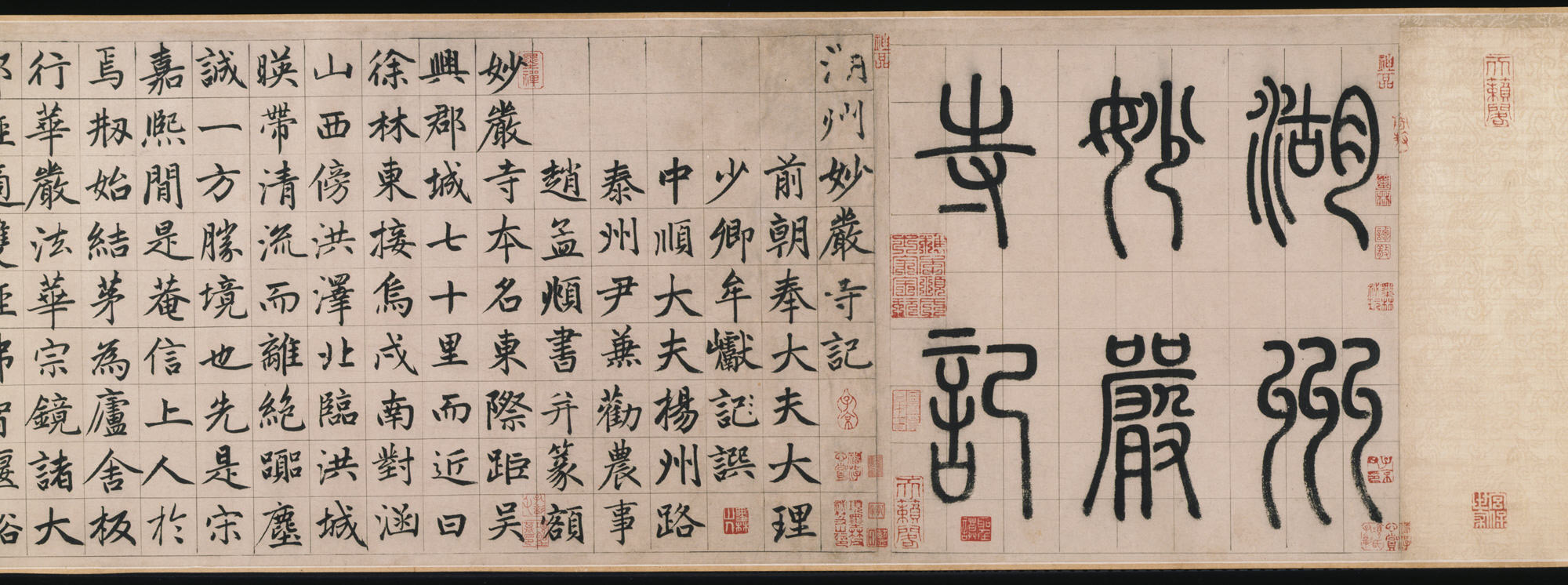 Zhao Mengfu Record of the Miaoyan Monastery, ca. 1309–10 Princeton University Art Museum